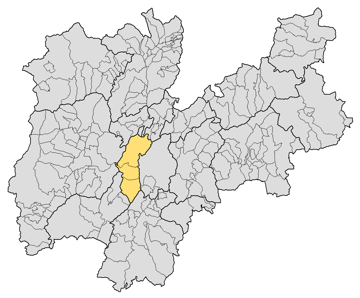 Location map of "Comunità della Valle dei Laghi" (16)